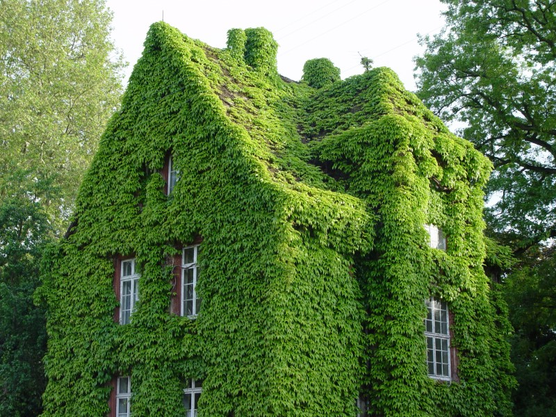 Begrüntes Haus in Gießen